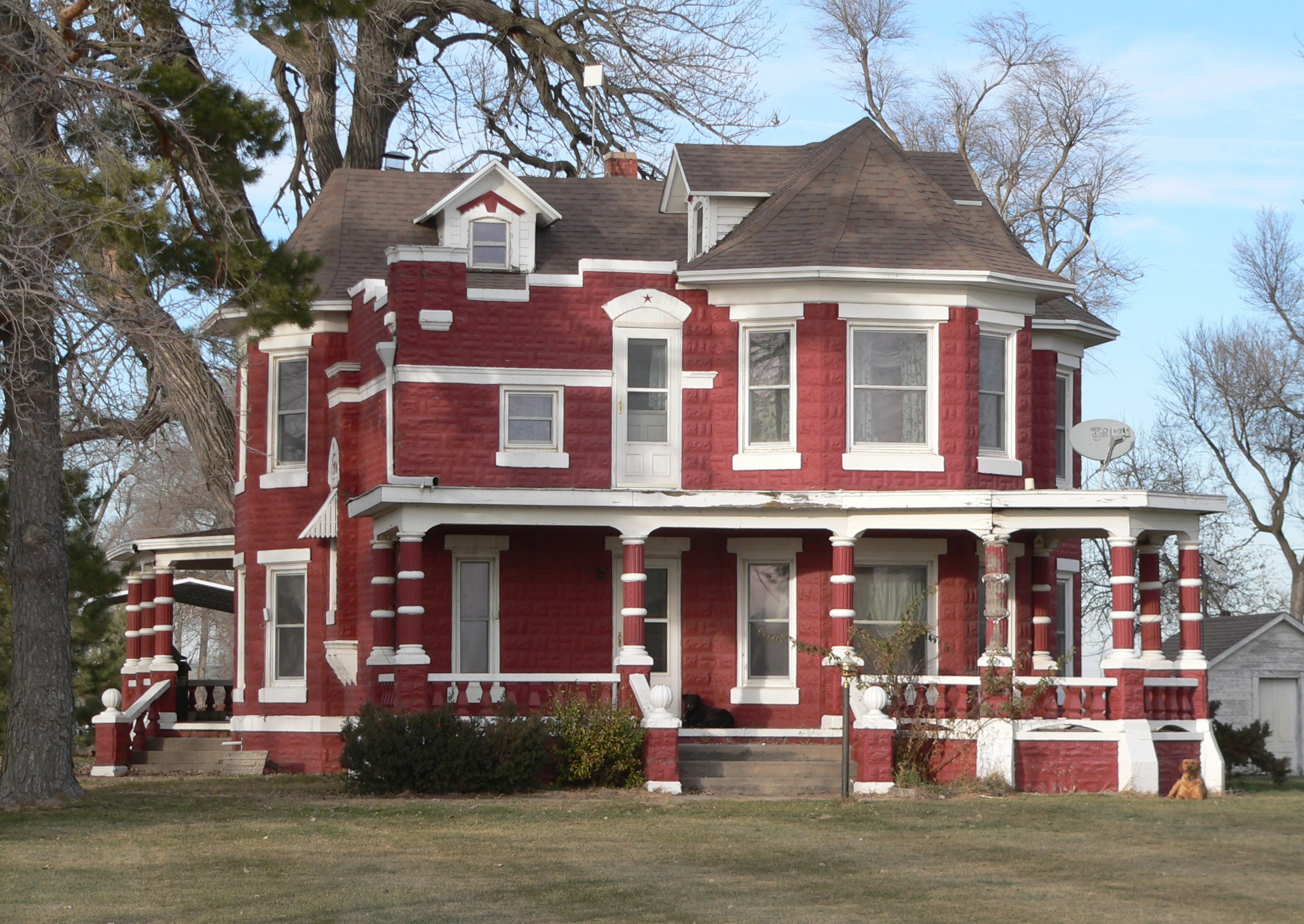 Carpenter farmstead in Kearney County, Nebraska, located on Carpenter Rd about half a mile west of Lowell Rd.; seen from the south. The Carpenter house was built c. 1910 in a style characterized as Classical Revival or Queen Anne. It is listed in the National Register of Historic Places.